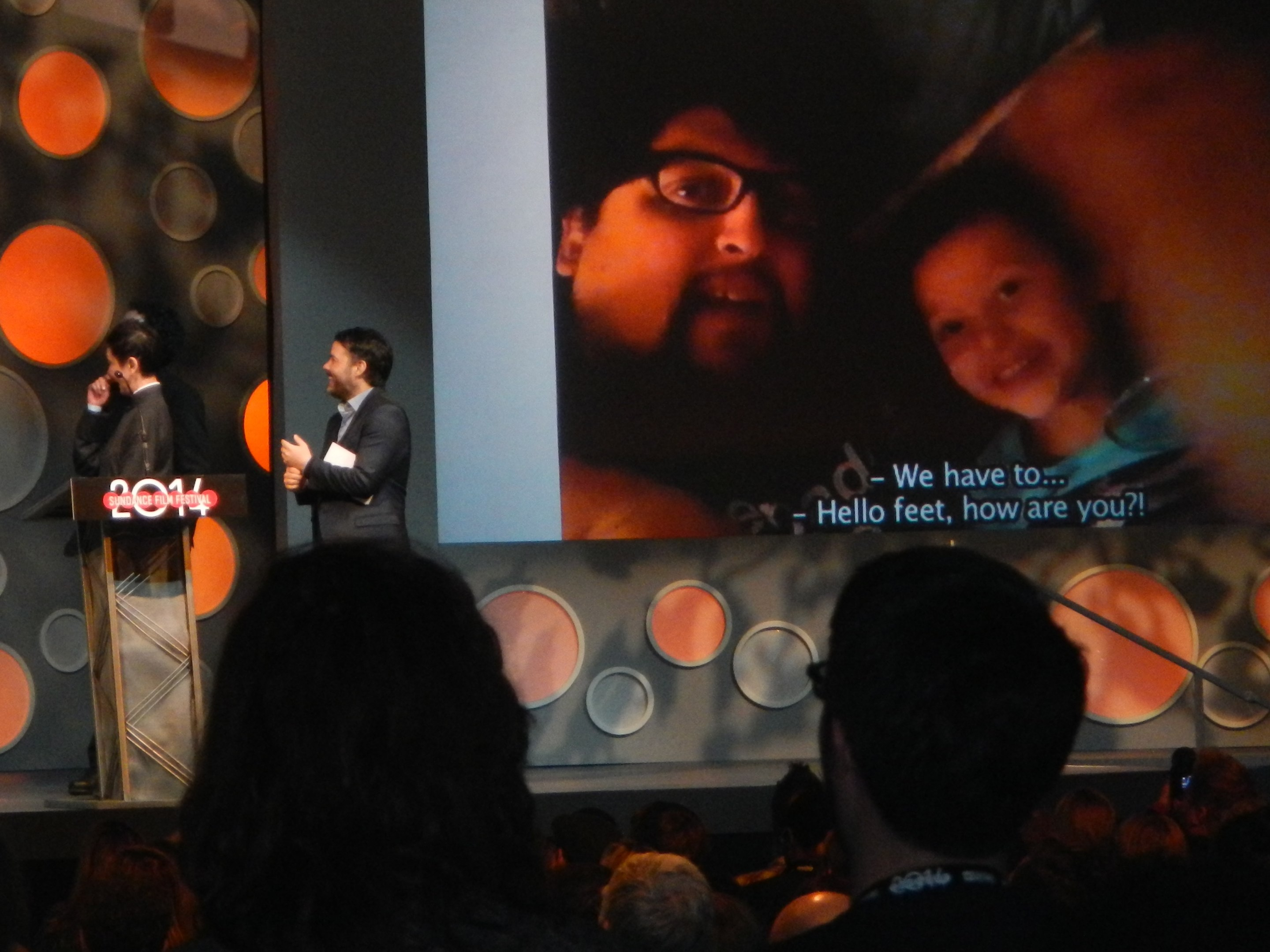 Alejandro Fernandez Almendras with baby Skyping the Sundance 2014 Awards Ceremony